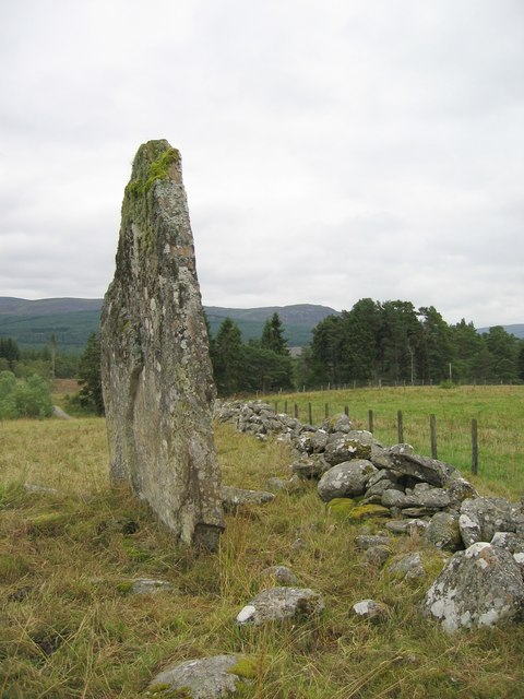 Standing Stone at Gask. Gask stone circle is one of the largest surviving Clava type cairns. This 10 ft by 10 ft slab is only 8 ins deep. It defines the southwest entrance to the cairn.